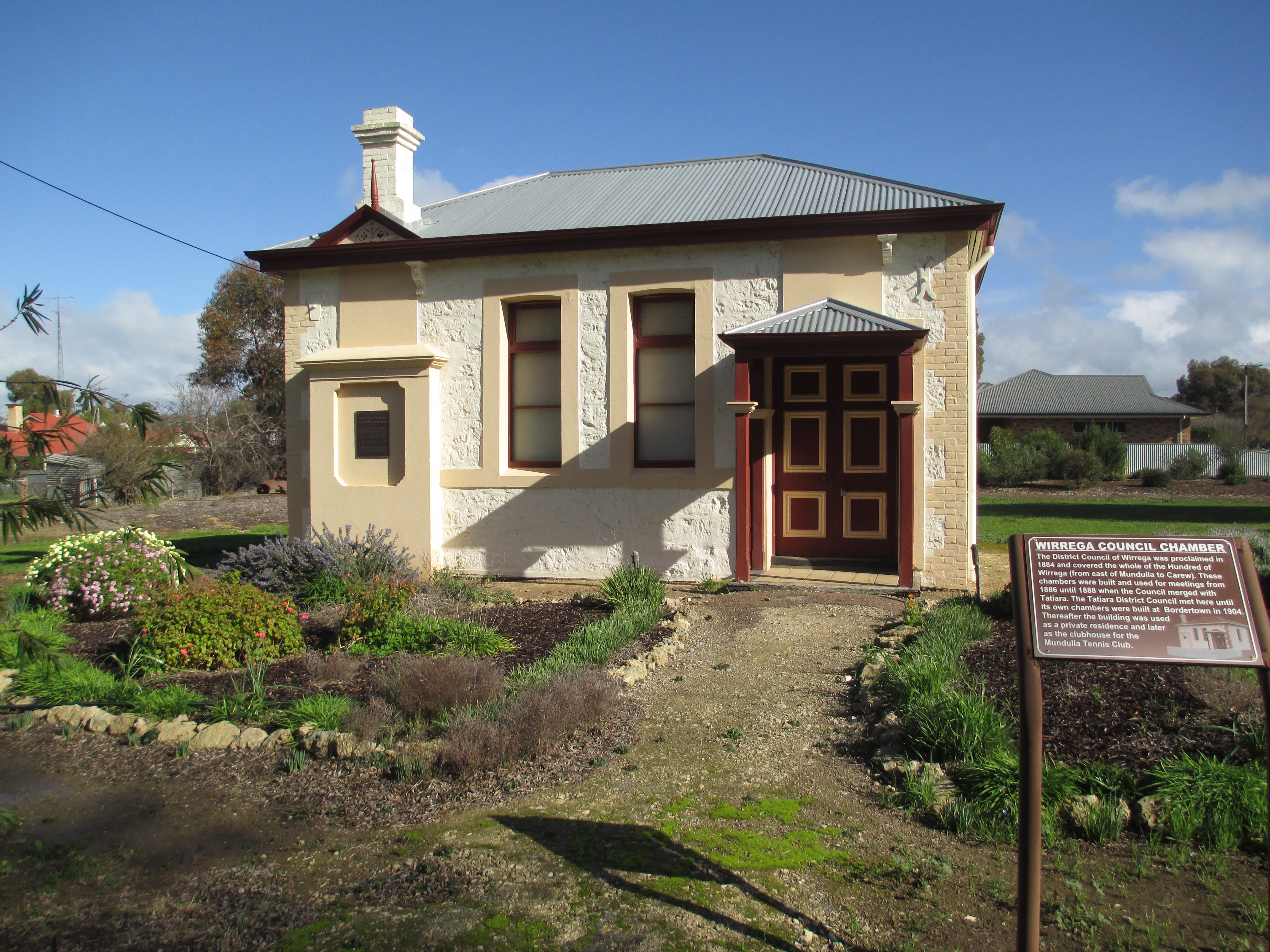 Former Wirrega Council Chamber at Mundulla